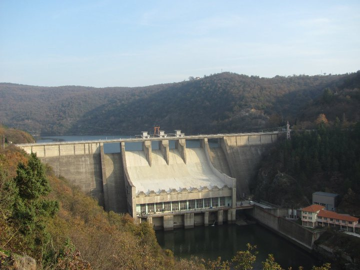 The wall of Ivailovgrad Dam, Bulgaria